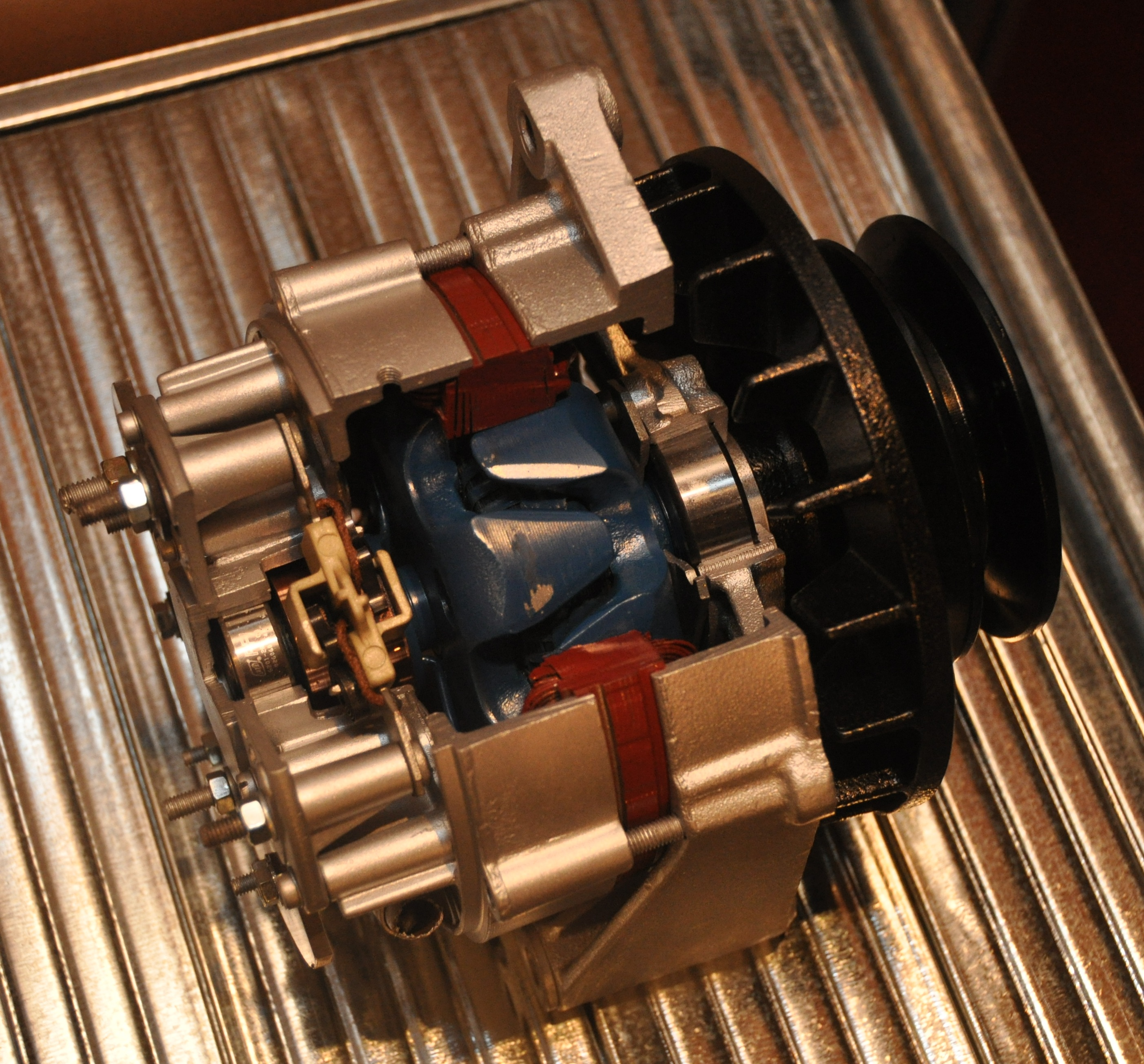 Construction & shipping industry 2010